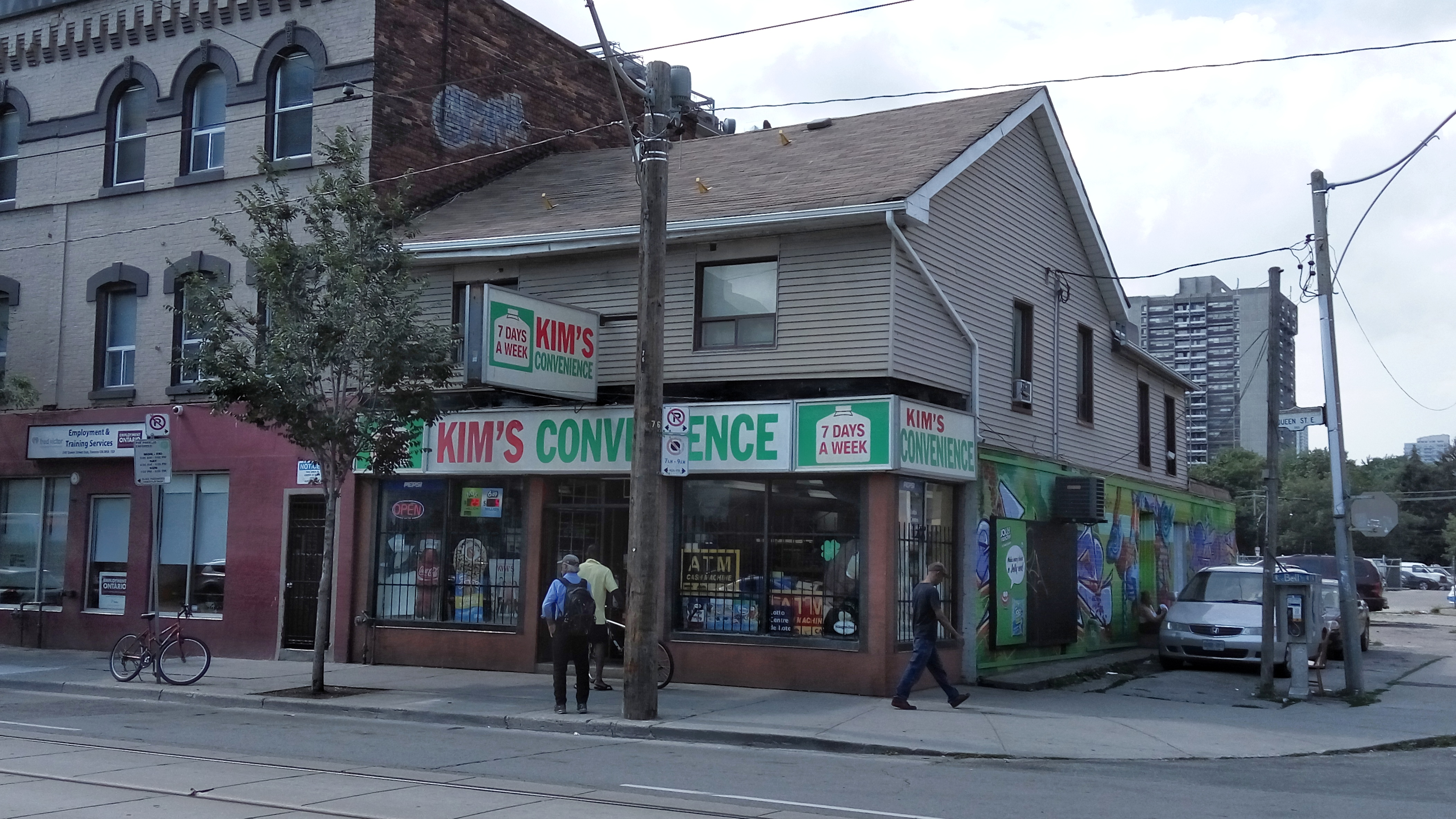 The Mimi Variety convenience store, at 252 Queen Street East in Toronto, which was given an exterior makeover as Kim's Convenience for the television show of the same name.